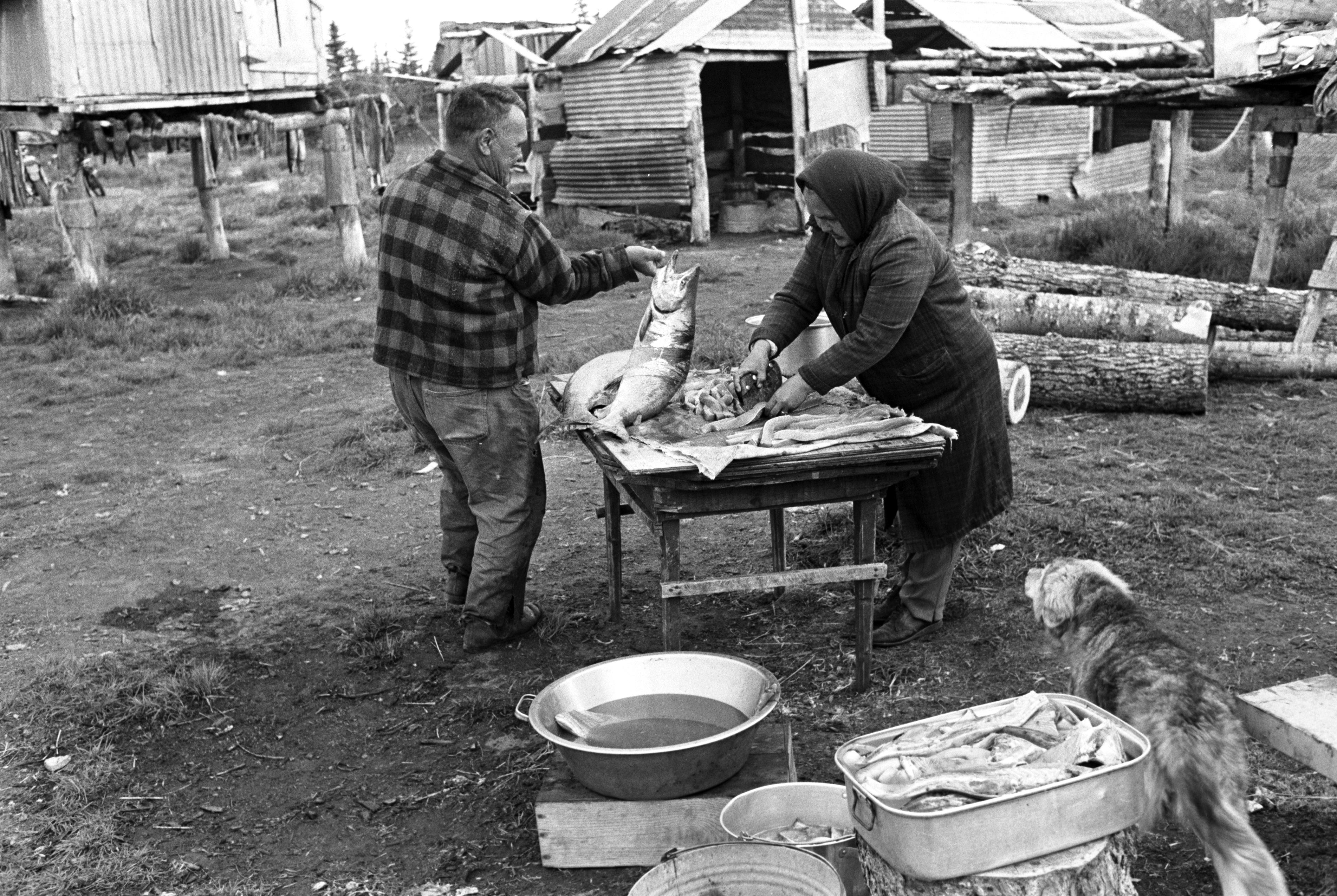 Native Alaskan husband and wife clean the catch of the day in Alaska in June 1975. Photo courtesy National Archives and Records Administration.